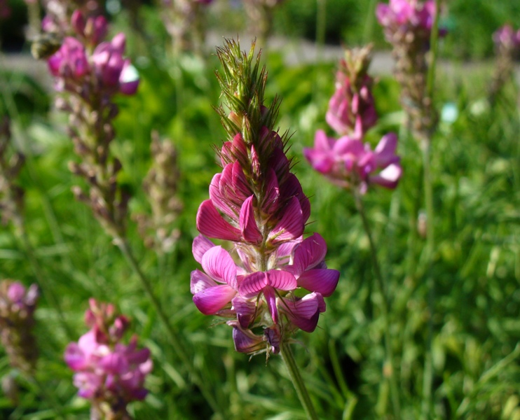 Onobrychis montana